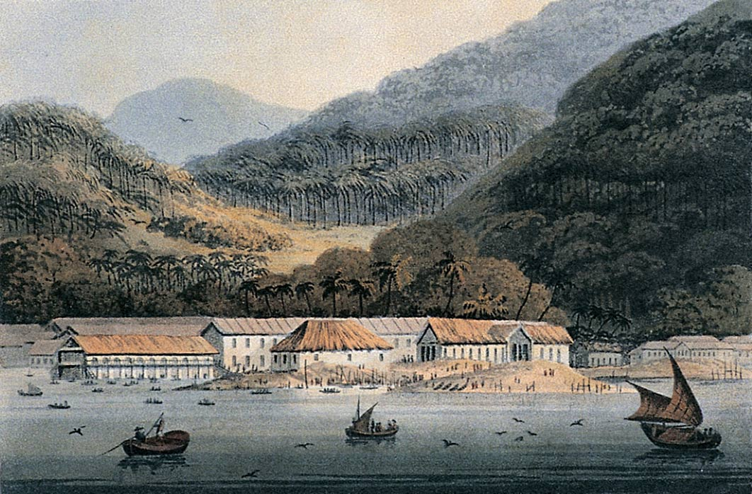 Title: George Town near Pulo Penang Media: Print 1814 Width: 218 mm (8.6 in) Height: 144 mm (5.7 in) Year of creation: 1811